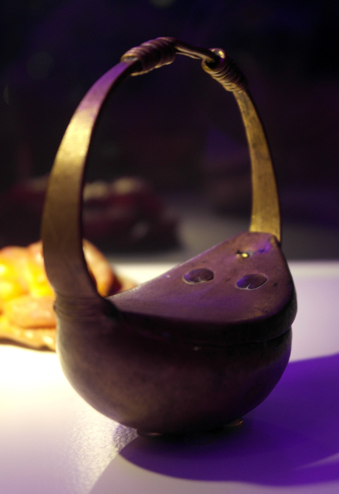 Ancient Roman bronze purse, discovered near the Roman villa Plasmolen in Mook, Limburg, the Netherlands. The object from the 1st, 2nd or 3rd century AD is now in the collection of the Rijksmuseum van Oudheden in Leiden. This photo was taken during the temporary exhibition Topstukken van het Rijksmuseum van Oudheden in the Limburgs Museum in Venlo, while the museum in Leiden was closed for renovations.